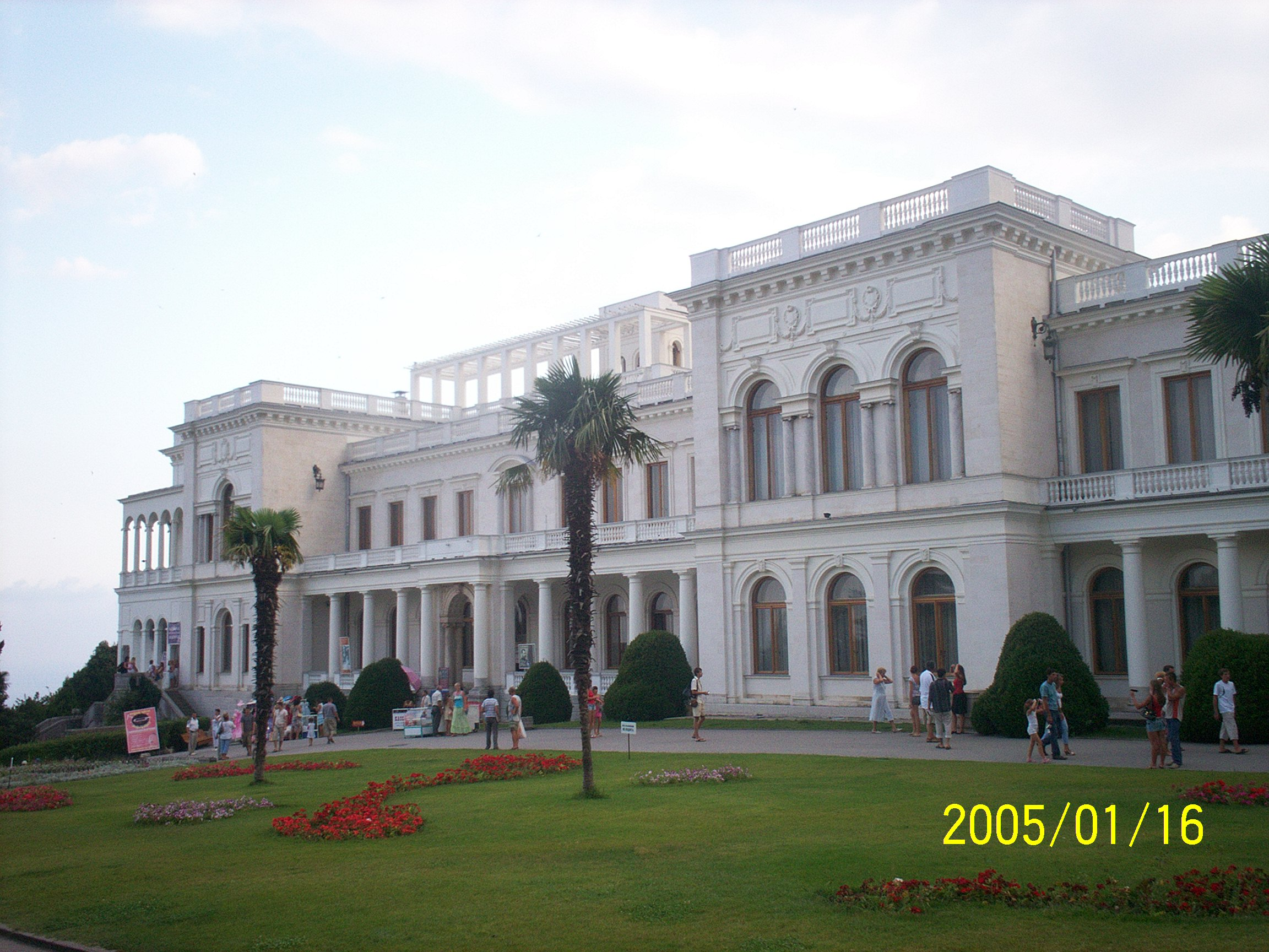 Livadia Palace